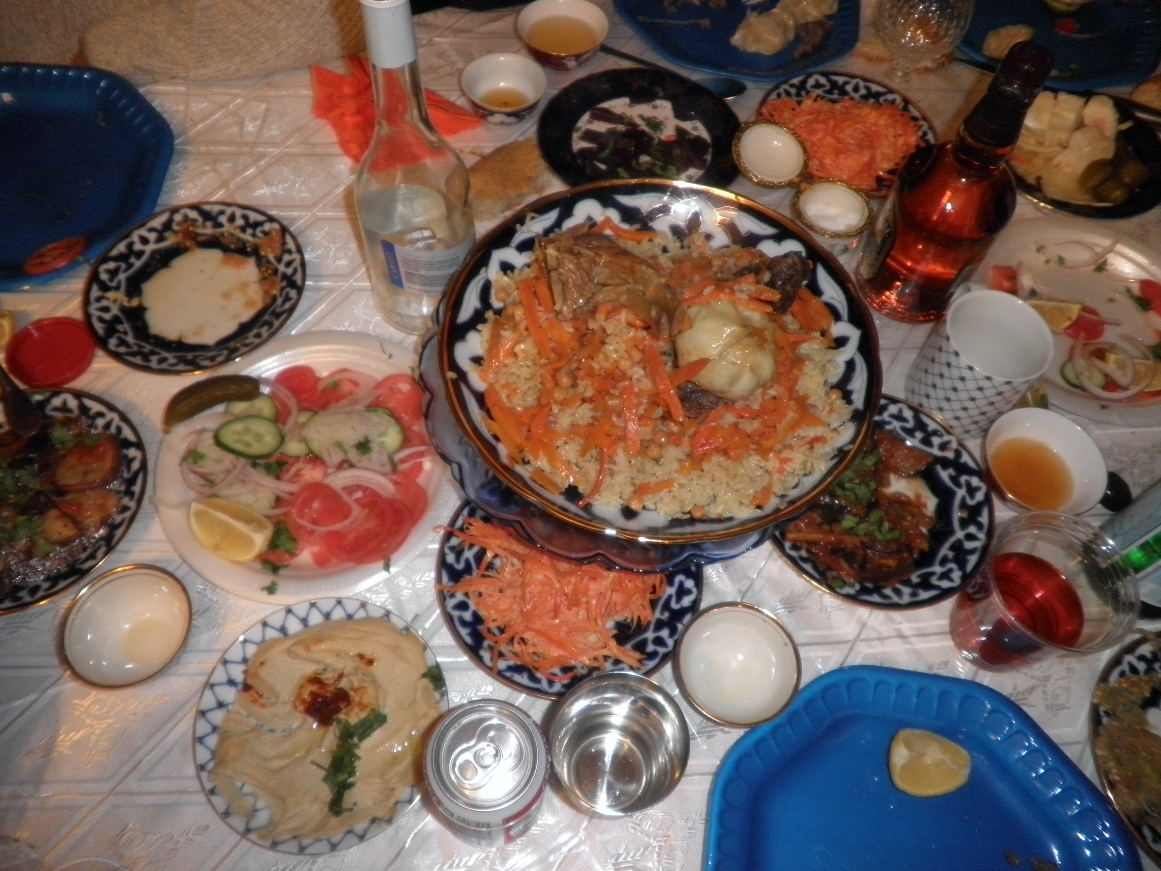 Osh Palov is staple dish in Bukharian Jewish Cuisine as seen here it is in center and is the main course.